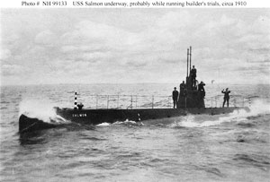 submarine in us navy circa 1910